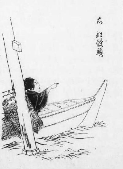 A chokibune boat by Ishihara Masaaki